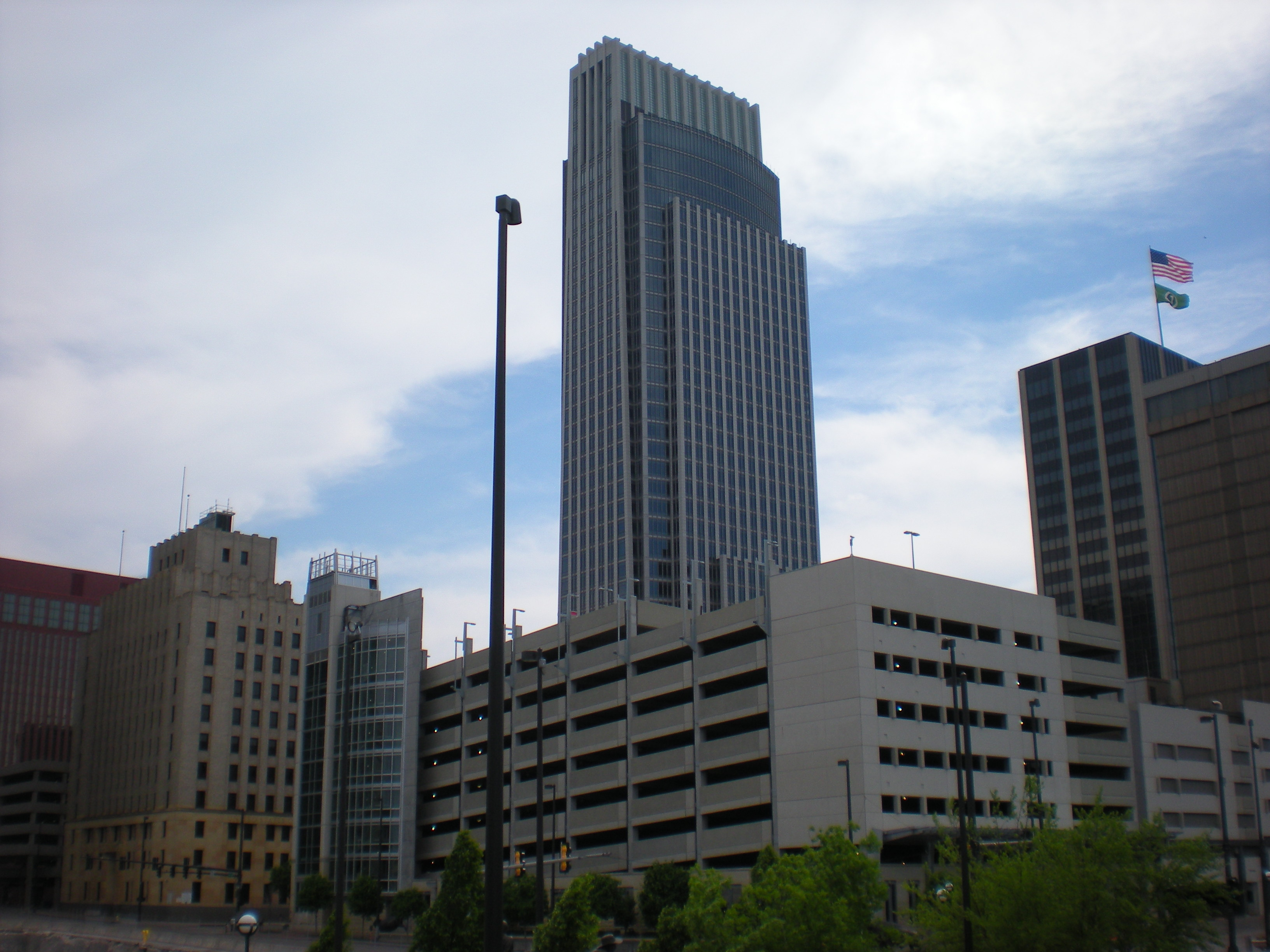 I took this photo of the First National Bank Tower in 2009